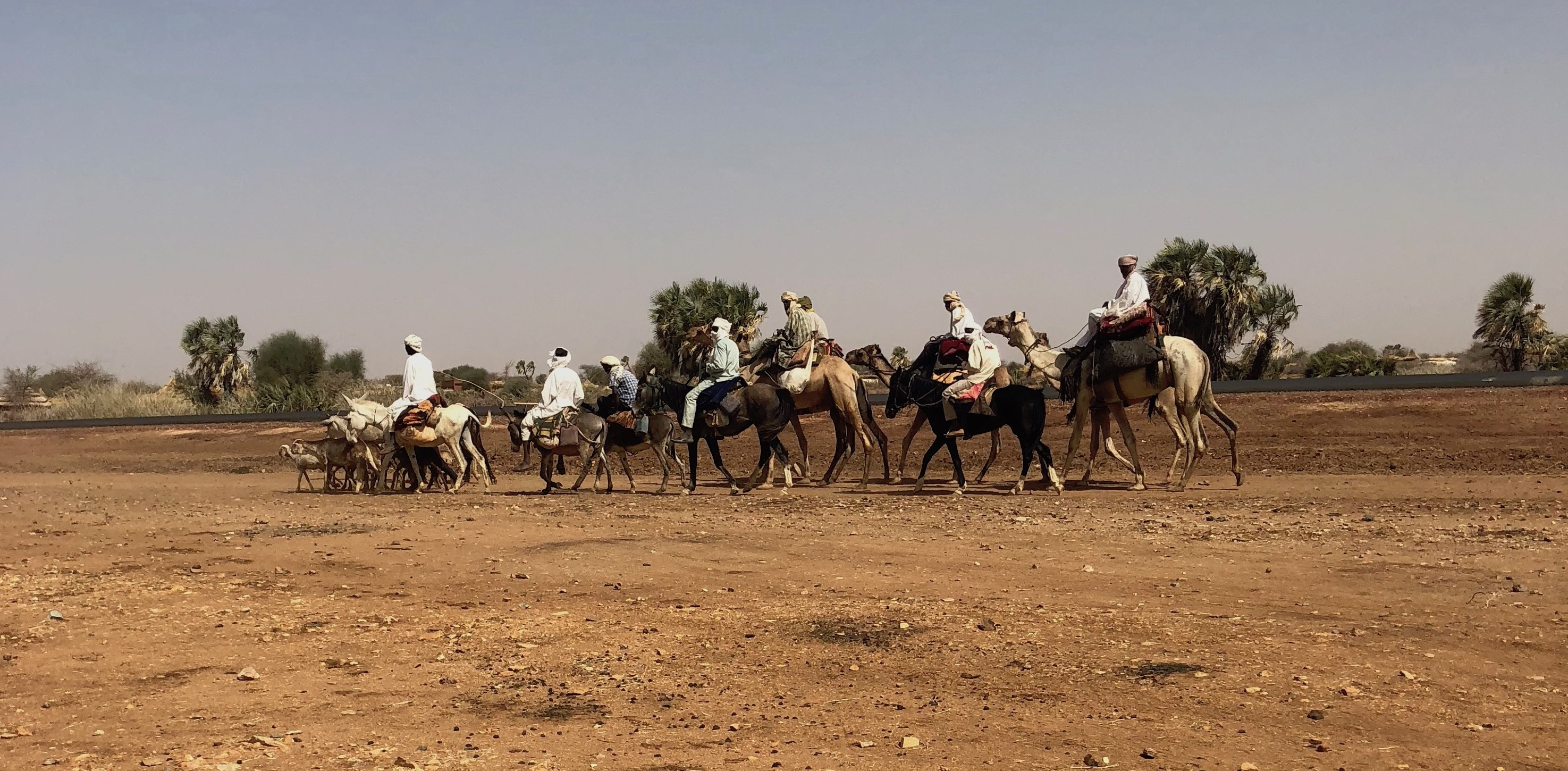 A caravan in Southern Darfur, Sudan